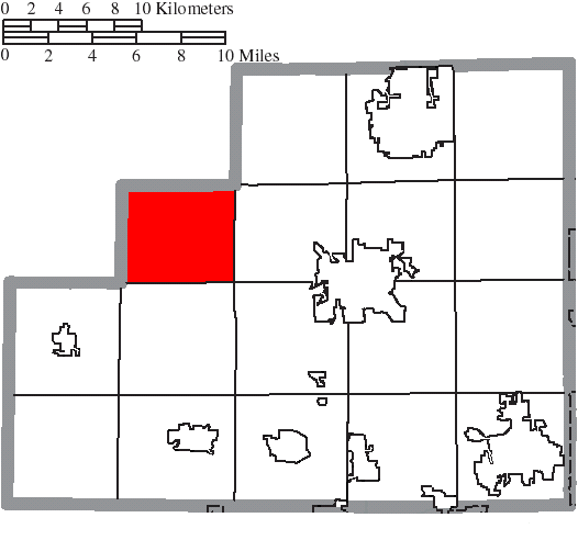 Map of the municipal and township boundaries of Medina County, Ohio, United States, as of the 2000 census, with the location of Litchfield Township highlighted. Township borders are shown only in unincorporated areas in order to differentiate incorporated and unincorporated areas more clearly.